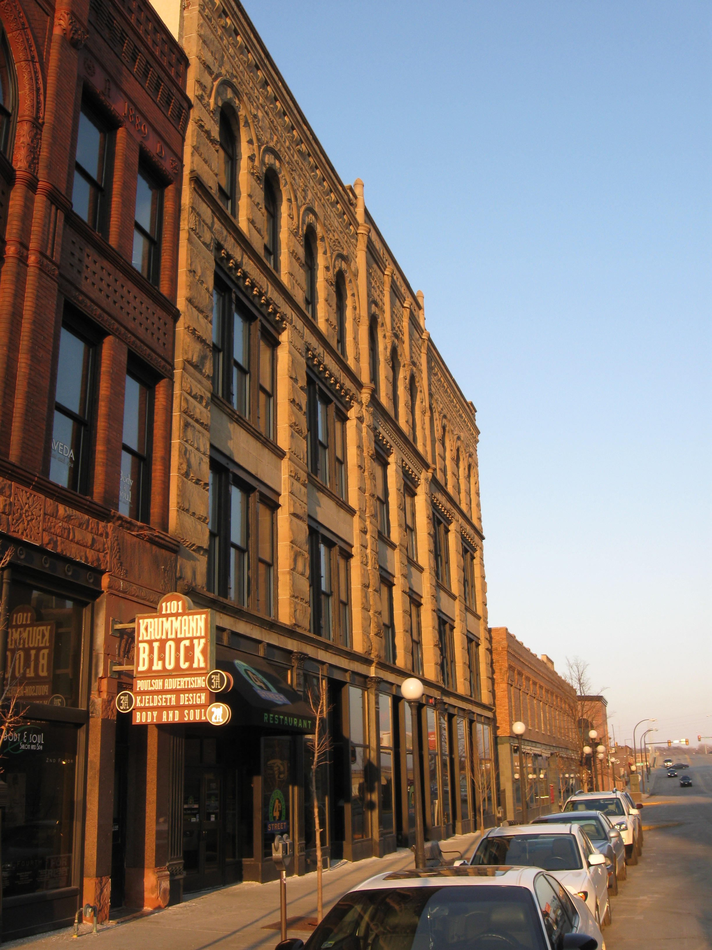 Facing west, Krummann (sic) Block and adjoining buildings, Fourth Street, Sioux City. Part of the Fourth Street Historic District. Bill Whittaker (talk) 13:33, 20 July 2009 (UTC)